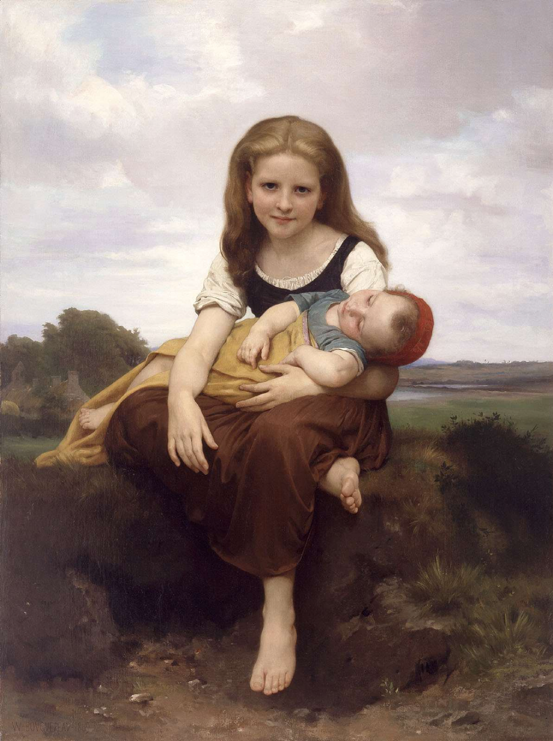 The artist's daughter Henriette and son Paul served as models.